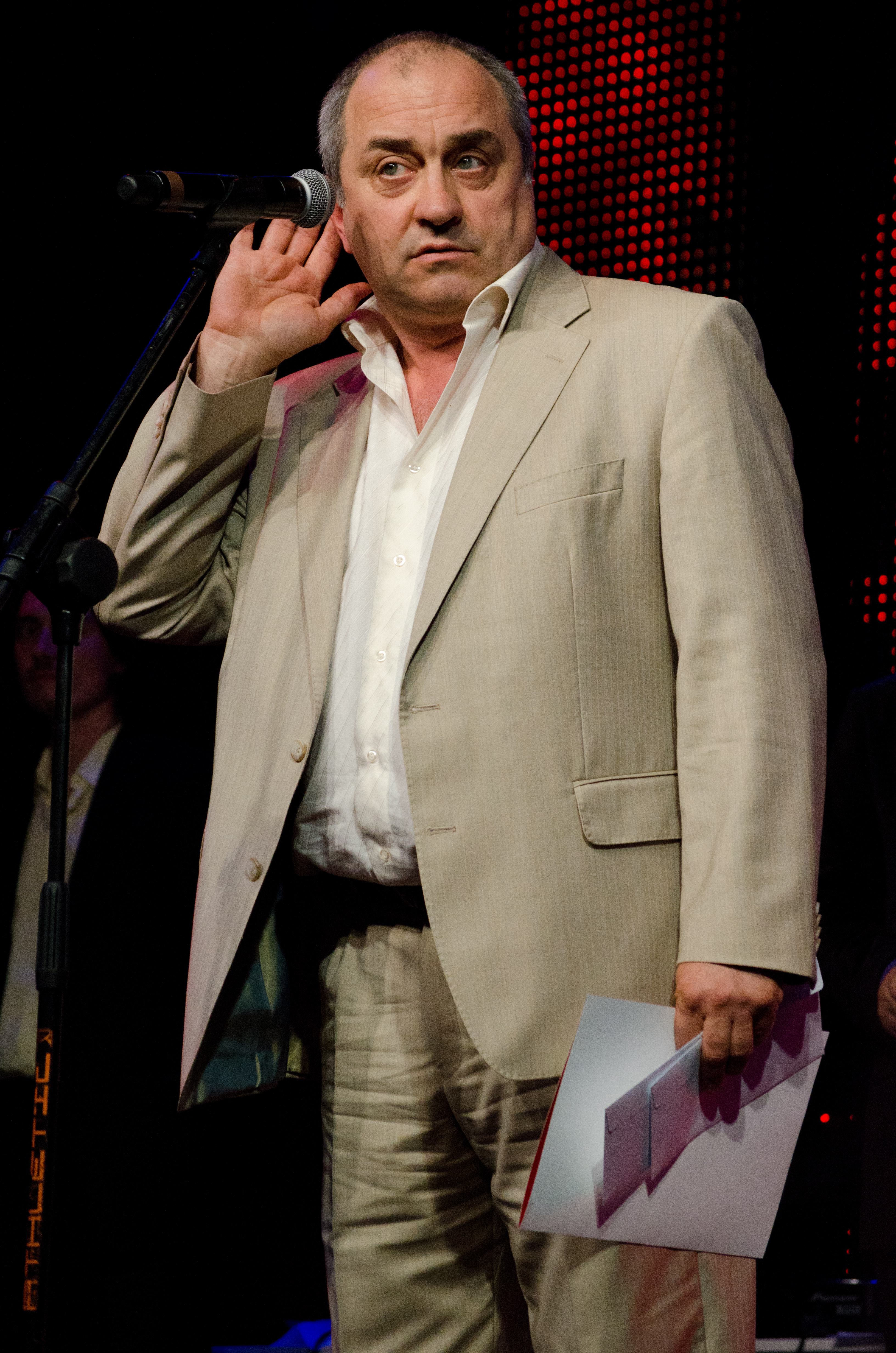 Koronatsiya Slova 2013 literature awards ceremony, Kiev, Ukraine